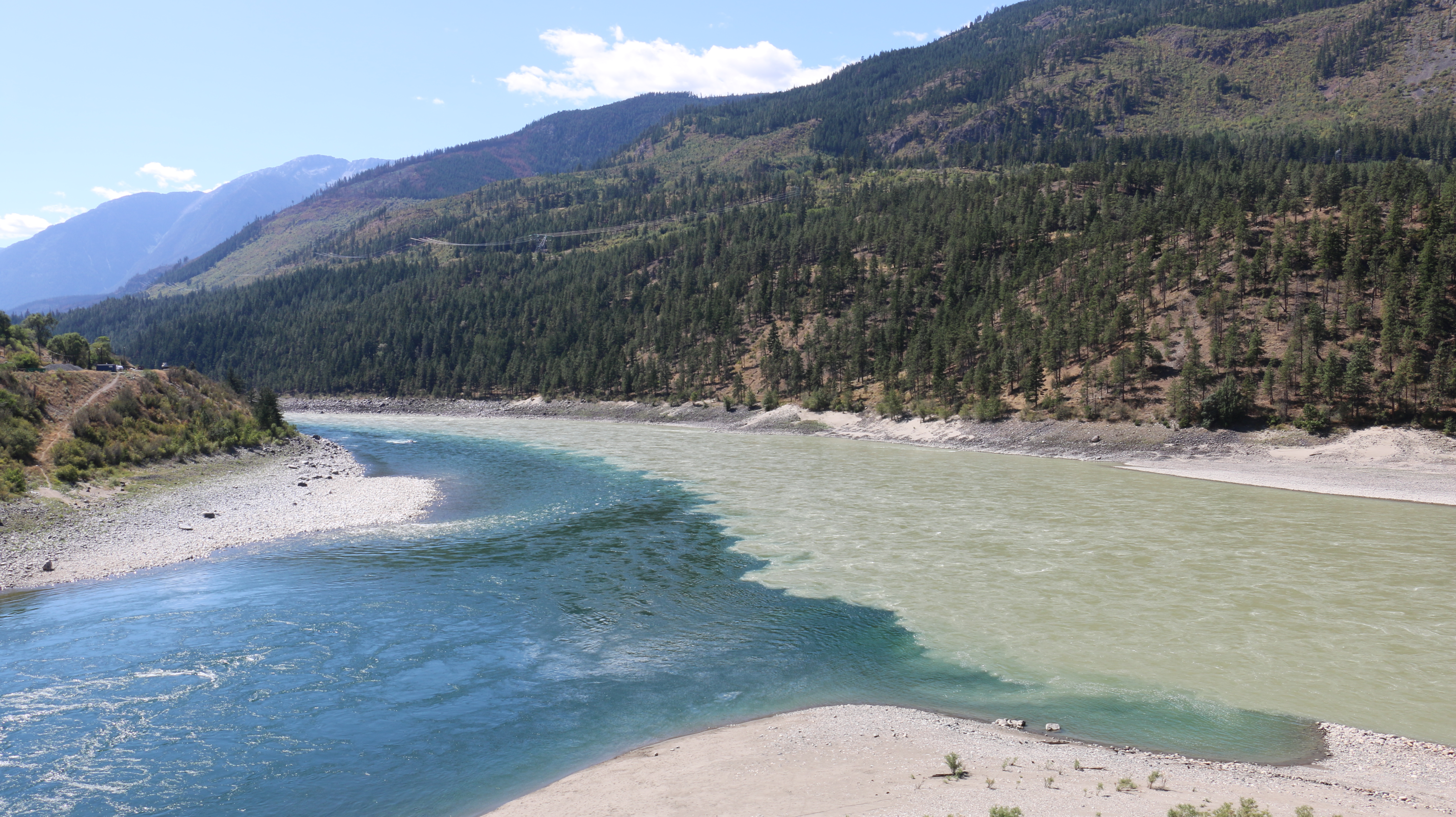 The darker, bluer water of the Thompson meets the milky waters of the Fraser River at Lytton, British Columbia.